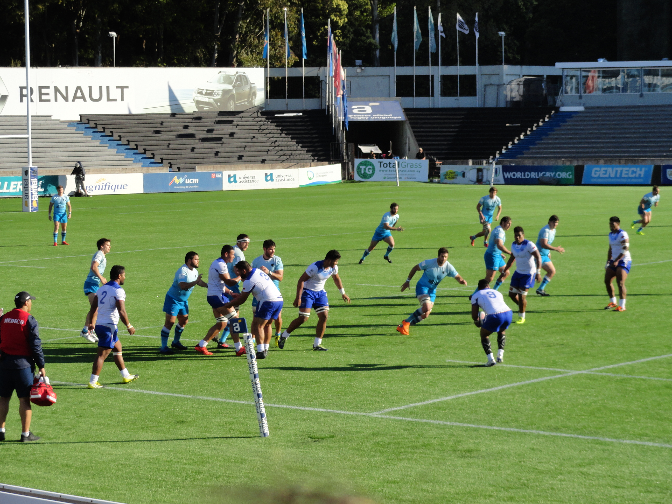 Uruguay XV vs Samoa rugby union match at the 2018 Americas Pacific Challenge